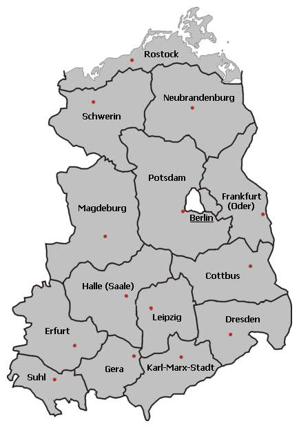 The 15 districts (Bezirke) of the GDR (East Germany) with their district towns, administrative divisions 1952–1990.